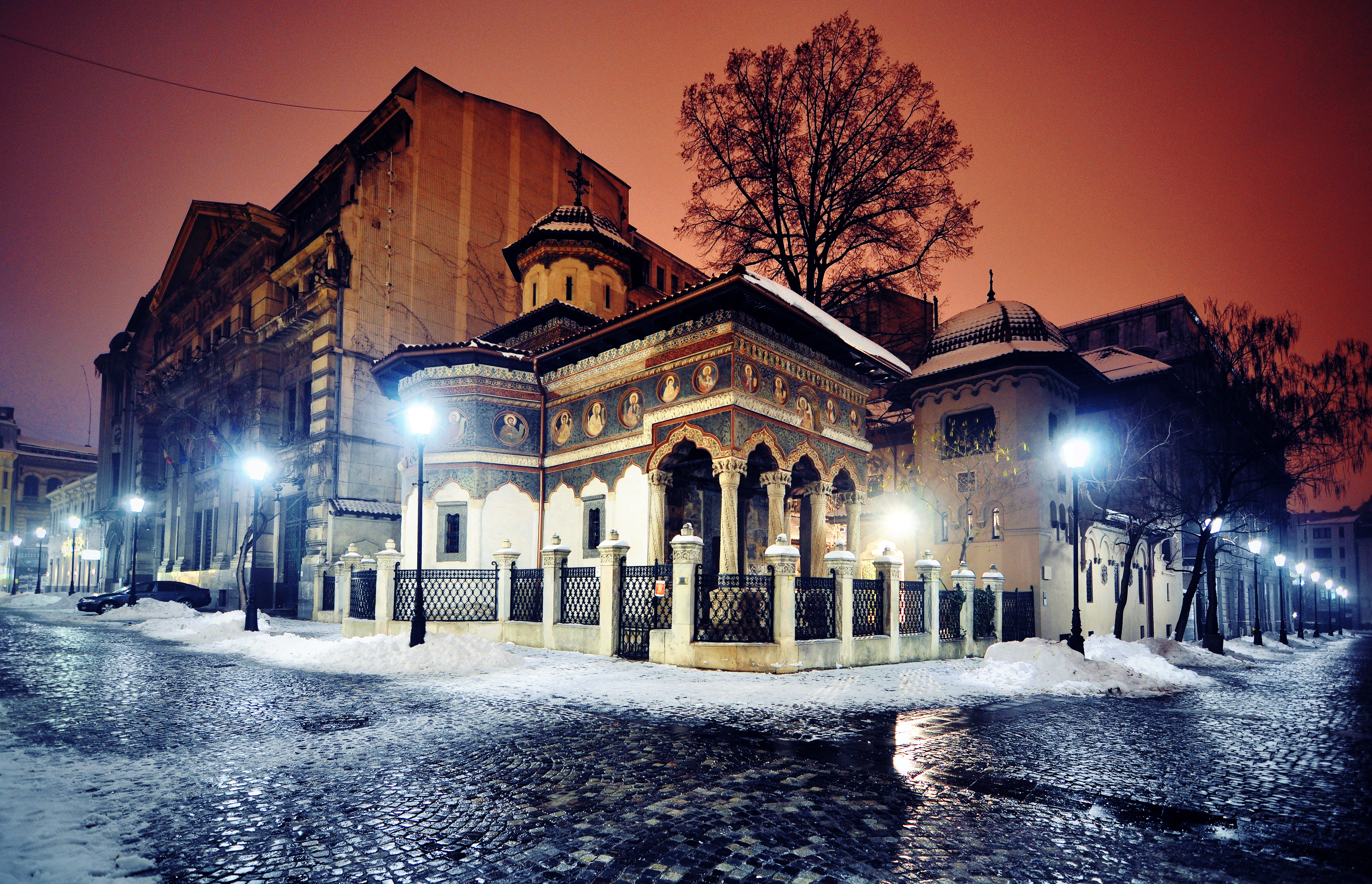 Stavropoleos Monastery, Bucharest, Romania